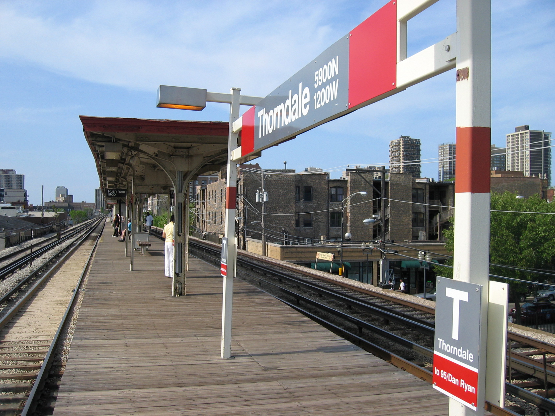 Thorndale Station on the CTA Red Line in Chicago, Illinois.Photographed from 41°59′23″N 87°39′33″W / 41.98972°N 87.65917°W looking north.